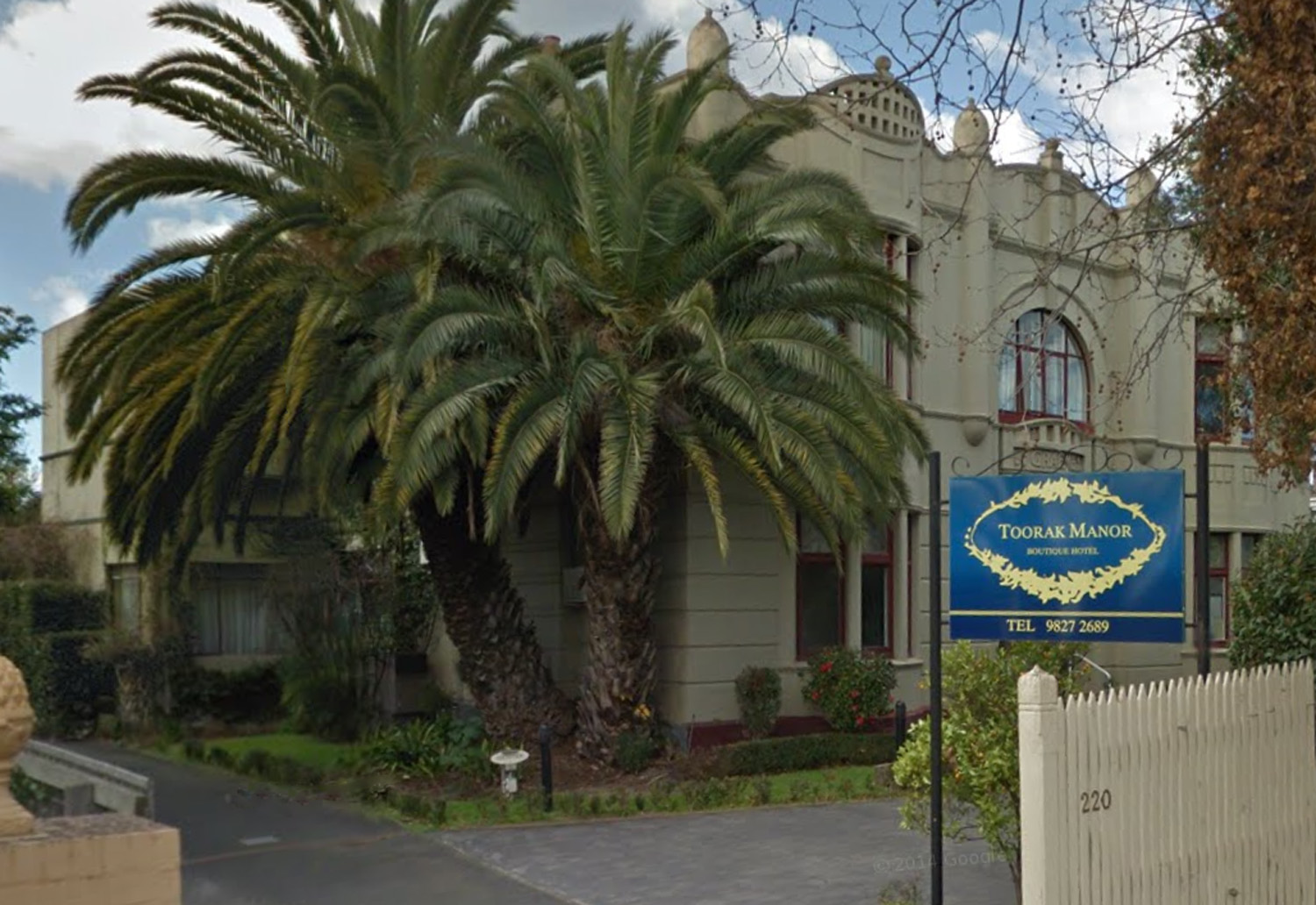 Toorak Manor, Toorak, Victoria